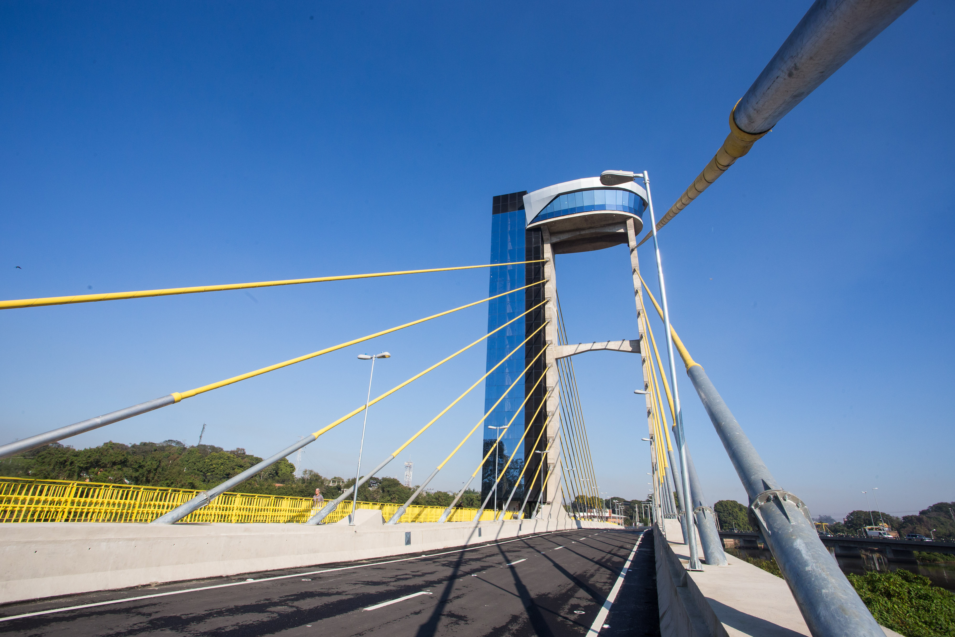 O Governador de São Paulo, entregou a ponte estaiada com um mirante para ajudar no desenvolvimento do turismo na região . 16/06/2016 - Salto - Foto: Eduardo Saraiva/A2IMG